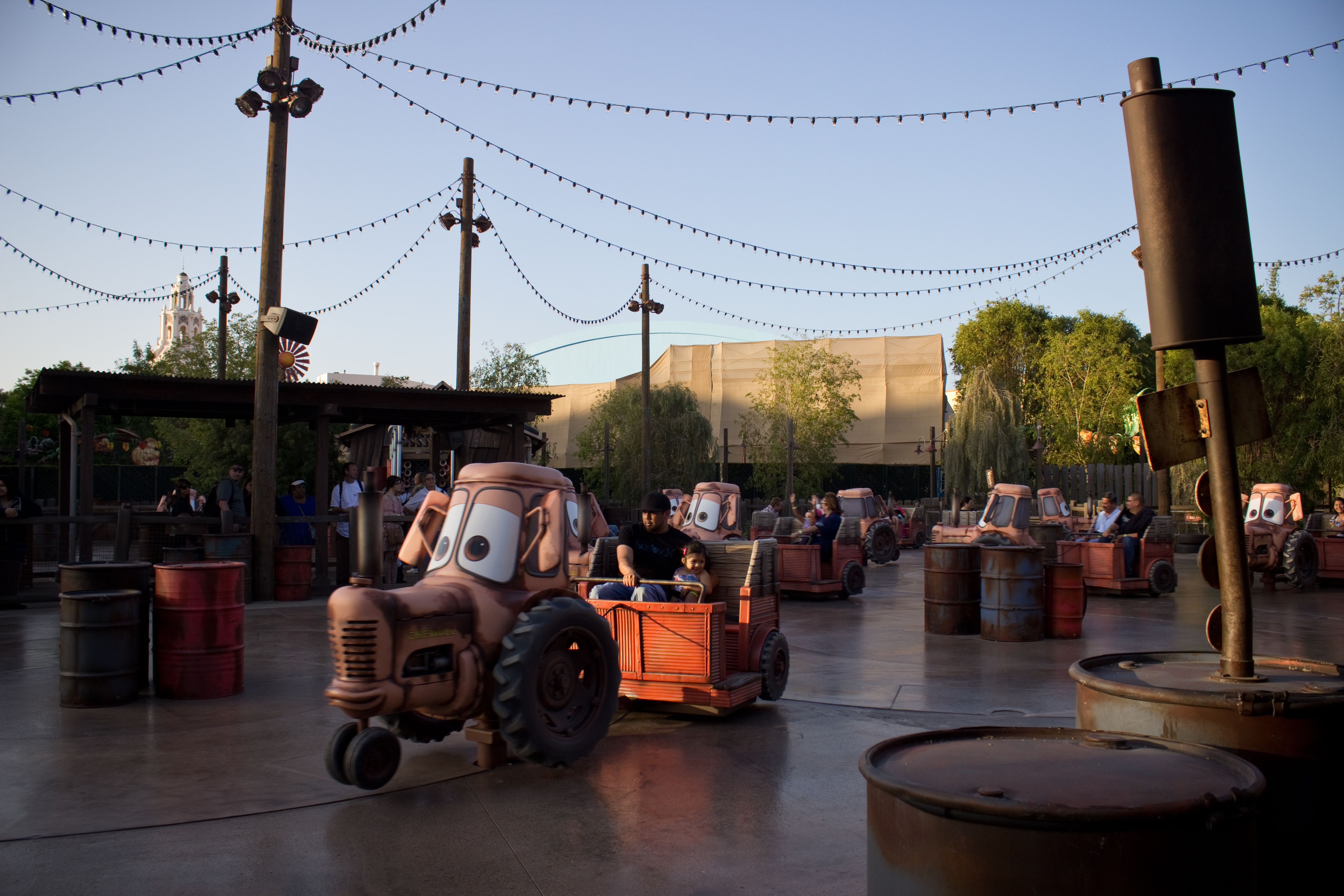 A look at Mater's Junkyard Jamboree in Cars Land at Disney California Adventure.